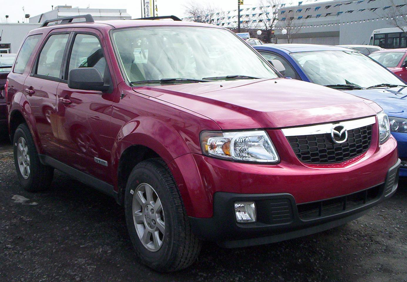 2008 Mazda Tribute photographed in Montreal, Quebec, Canada.